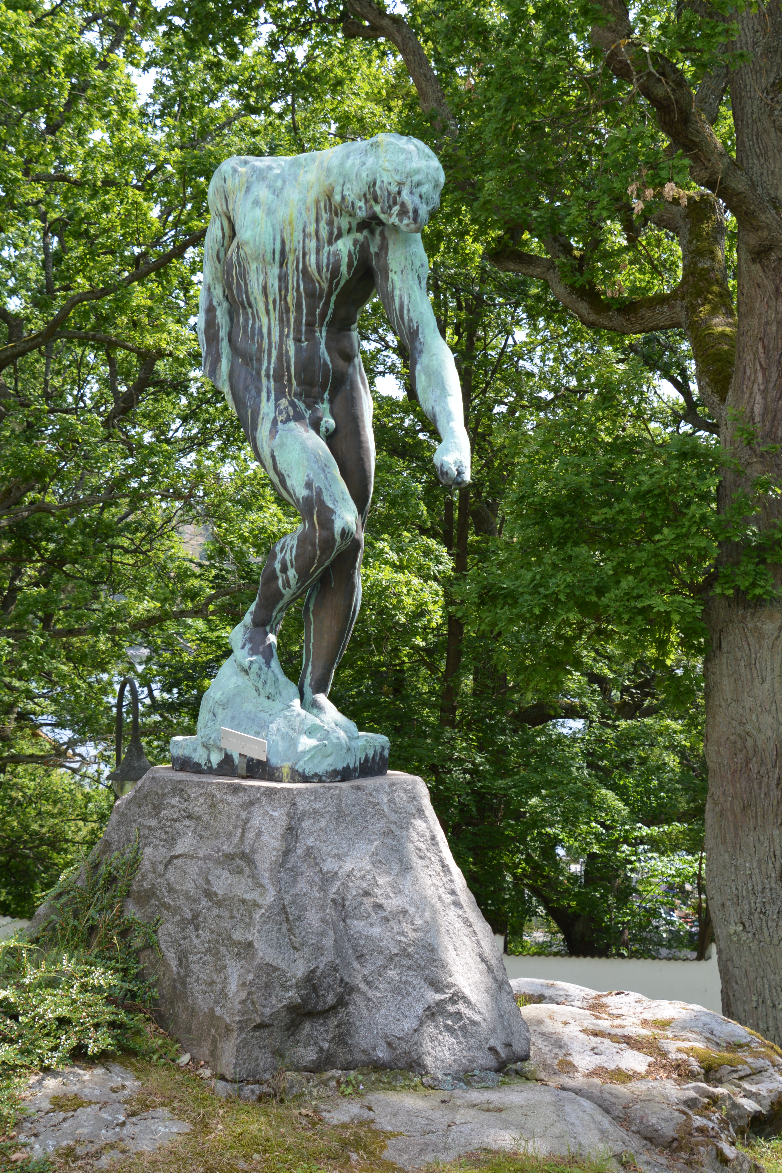 L'ombre in Thielska Galleriet garden, Stockholm